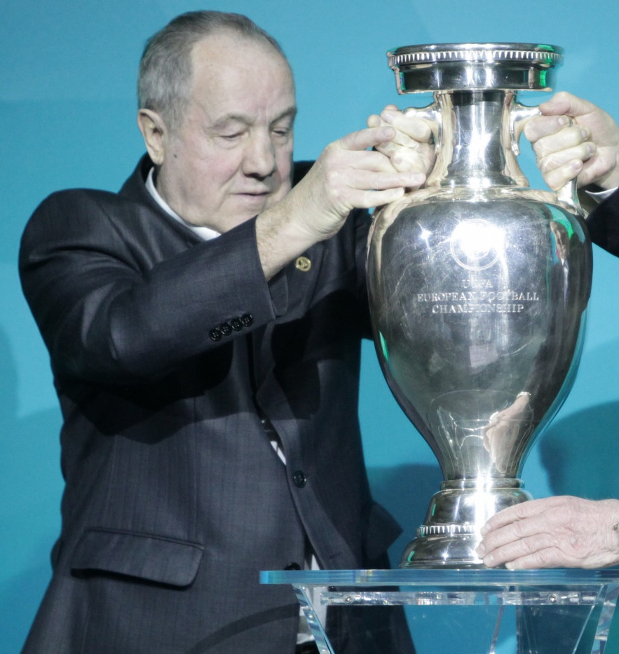 Vasiliy Danilov with the UEFA Euro trophy at the presentation of the UEFA Euro 2020 logo in Saint Petersburg, Russia.